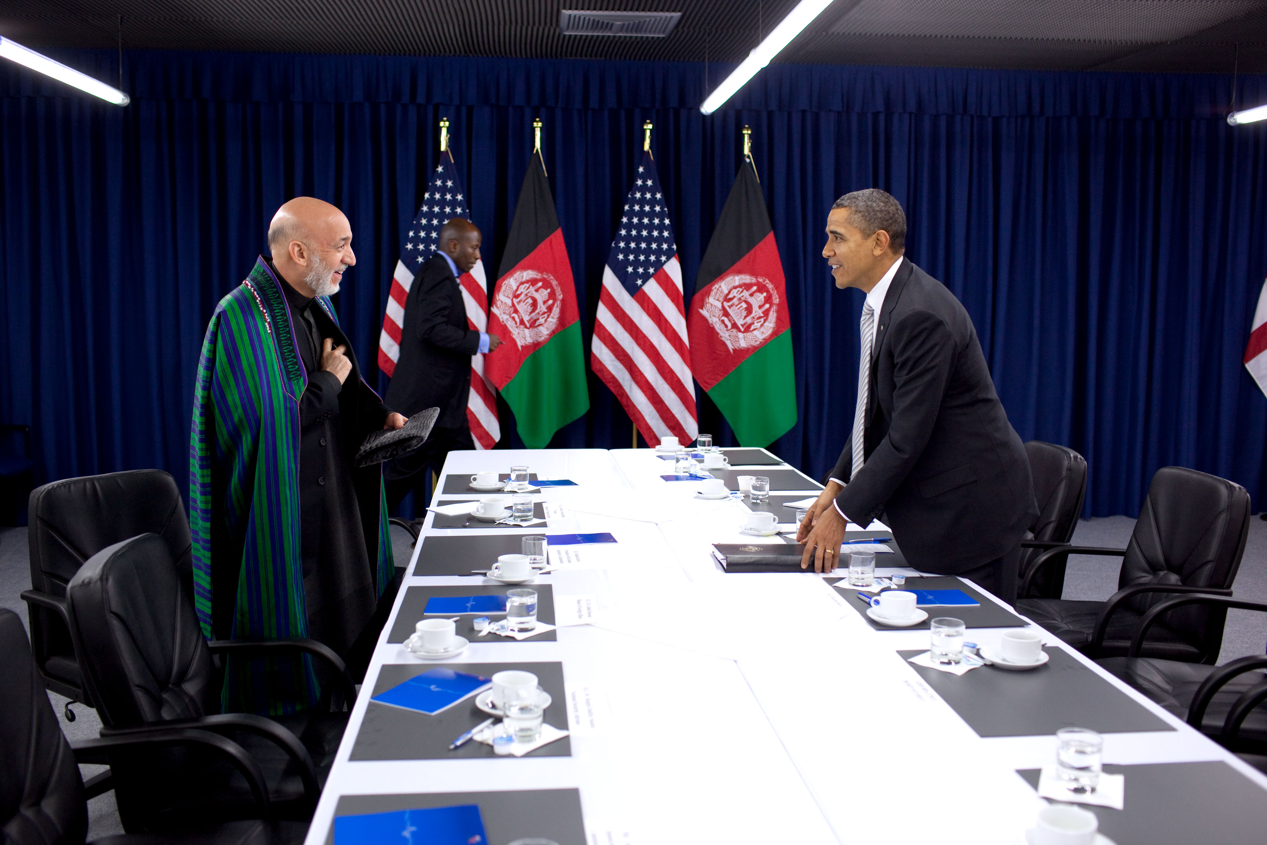 President Barack Obama and President Hamid Karzai of Afghanistan finish up a bi-lateral meeting at the NATO Summit in Lisbon, Portugal, Nov. 20, 2010. (Official White House Photo by Pete Souza) This official White House photograph is in the public domain from a copyright perspective, so while restrictions such as personality or privacy rights may apply, in general, manipulations are allowed.